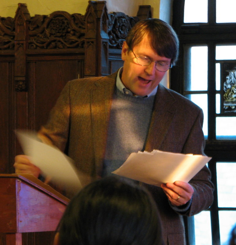 Historian Edward J. Larson, delivering a lecture in the Hall of Graduate Studies at Yale University.